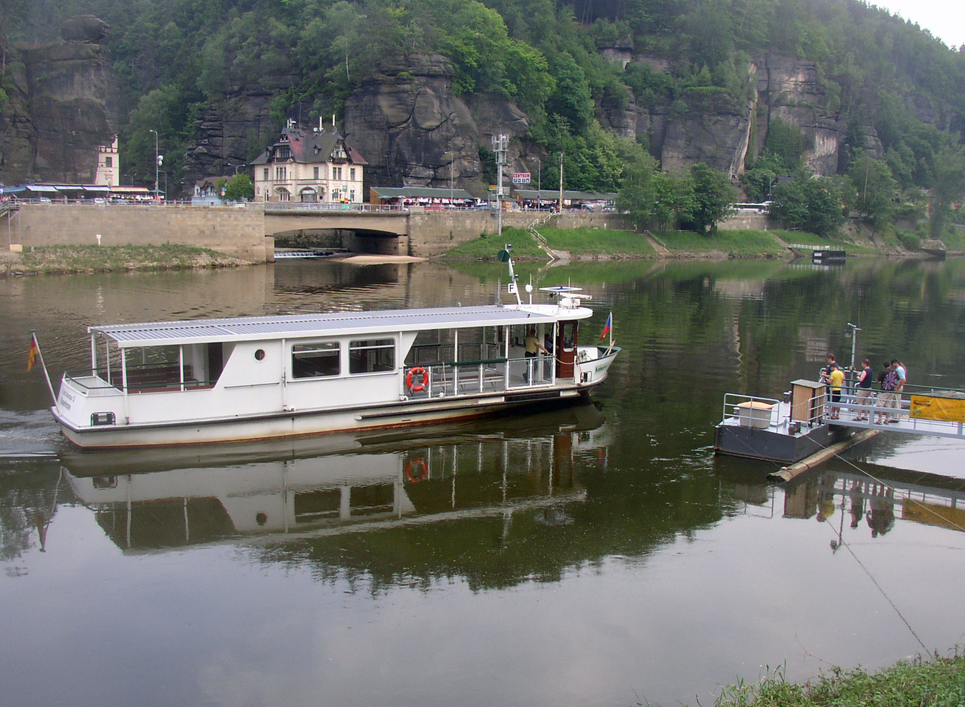 Ferry (and border crossing) on the Elbe River between Hřensko (Czech Republic) and Schöna (Germany). A view from the German side.